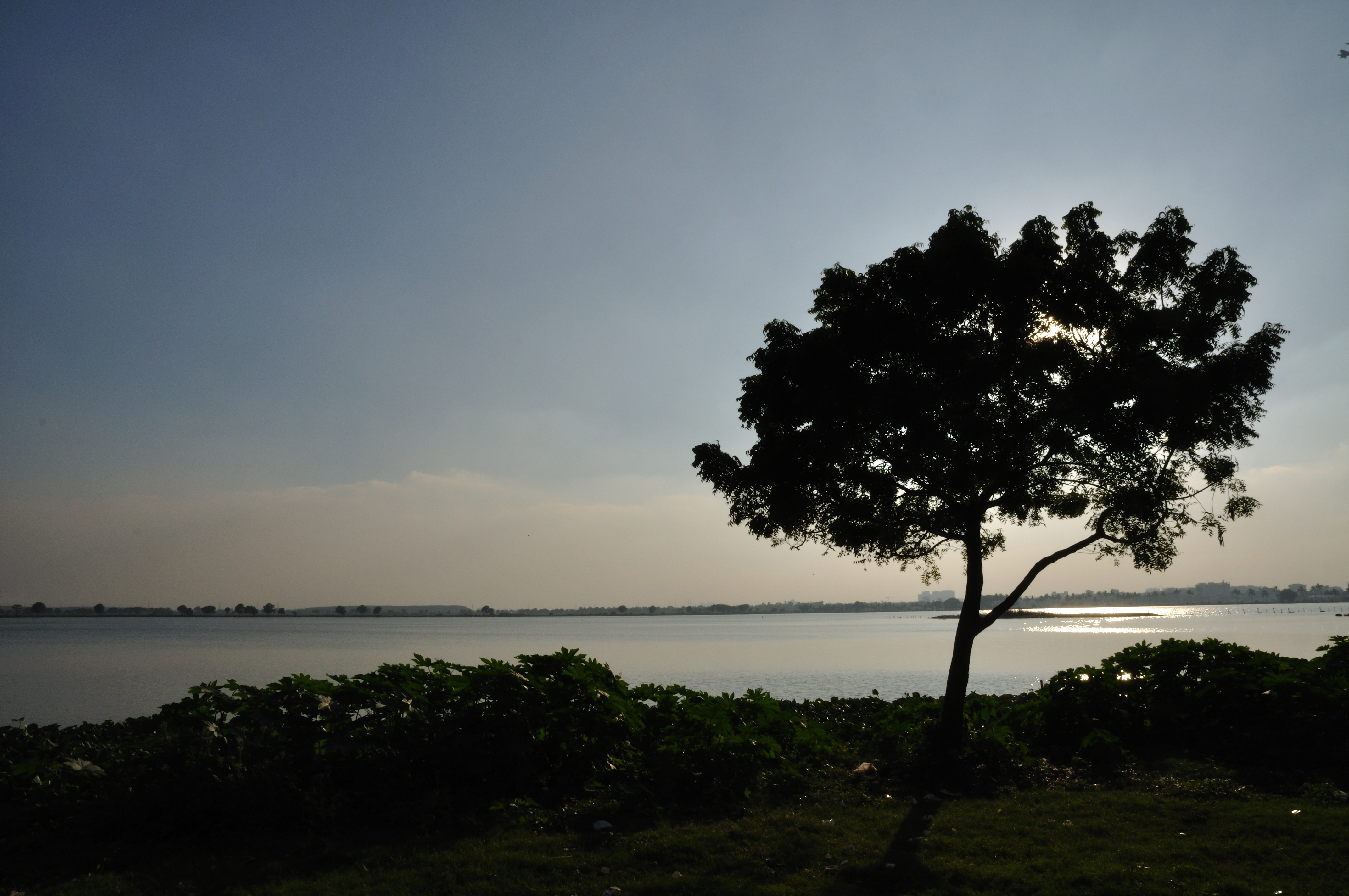 I The Nalban lake of east Kolkata. It is fresh water fish farming four feet depth water body (in Bengali: Veri).